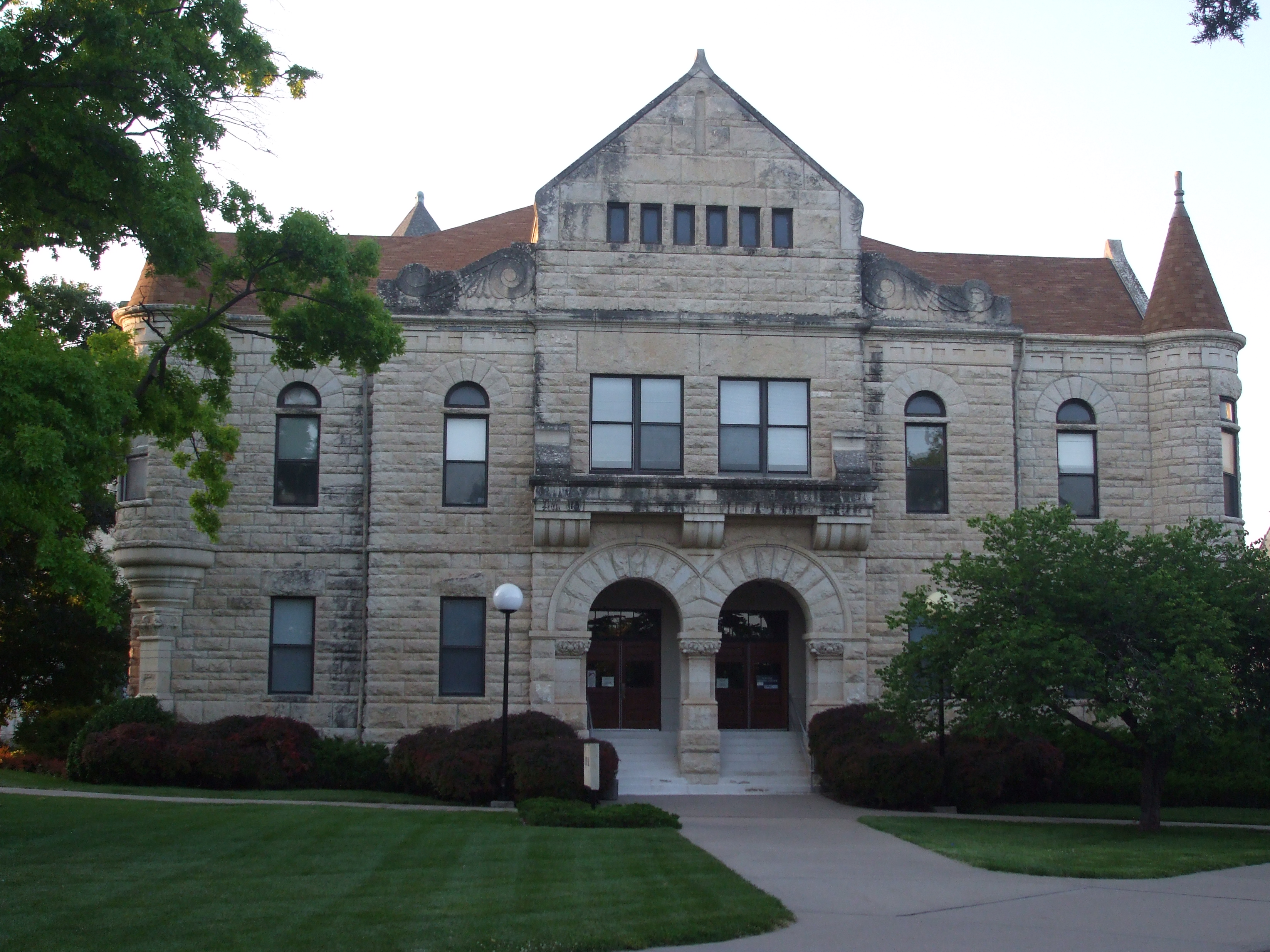 Holton Hall at Kansas State University